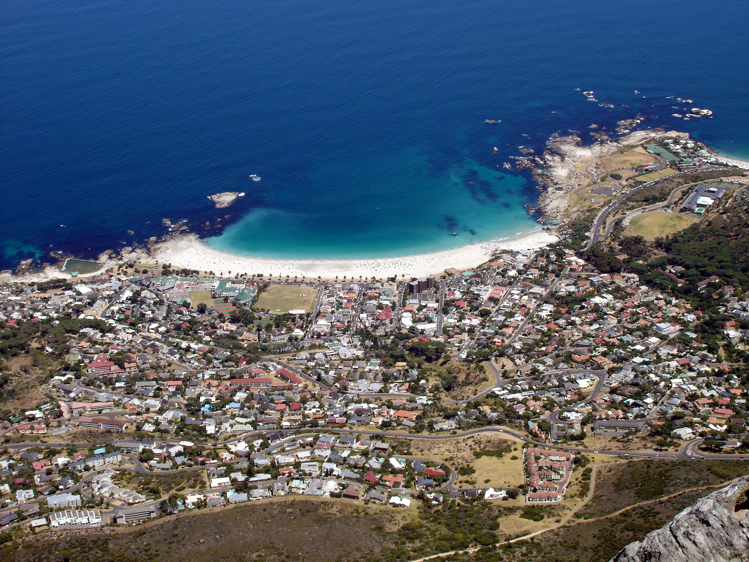 Camps Bay as seen from Table Mountain.